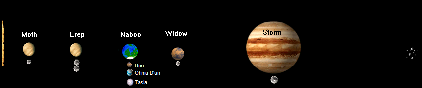 Diagram of the Fictional Naboo (Star Wars) System